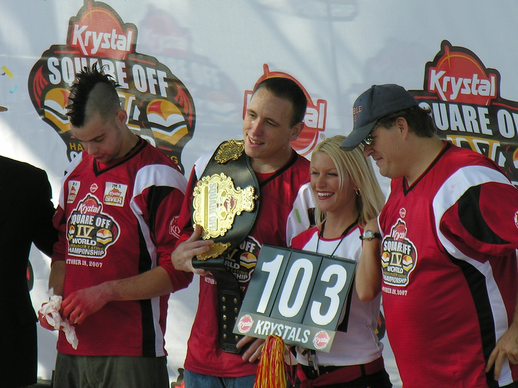 Krystal square-off photo.